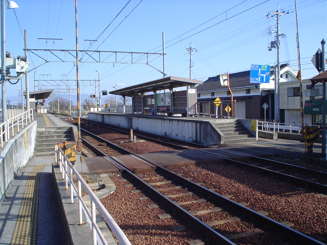 Ichinobe Station in shiga pref, japan